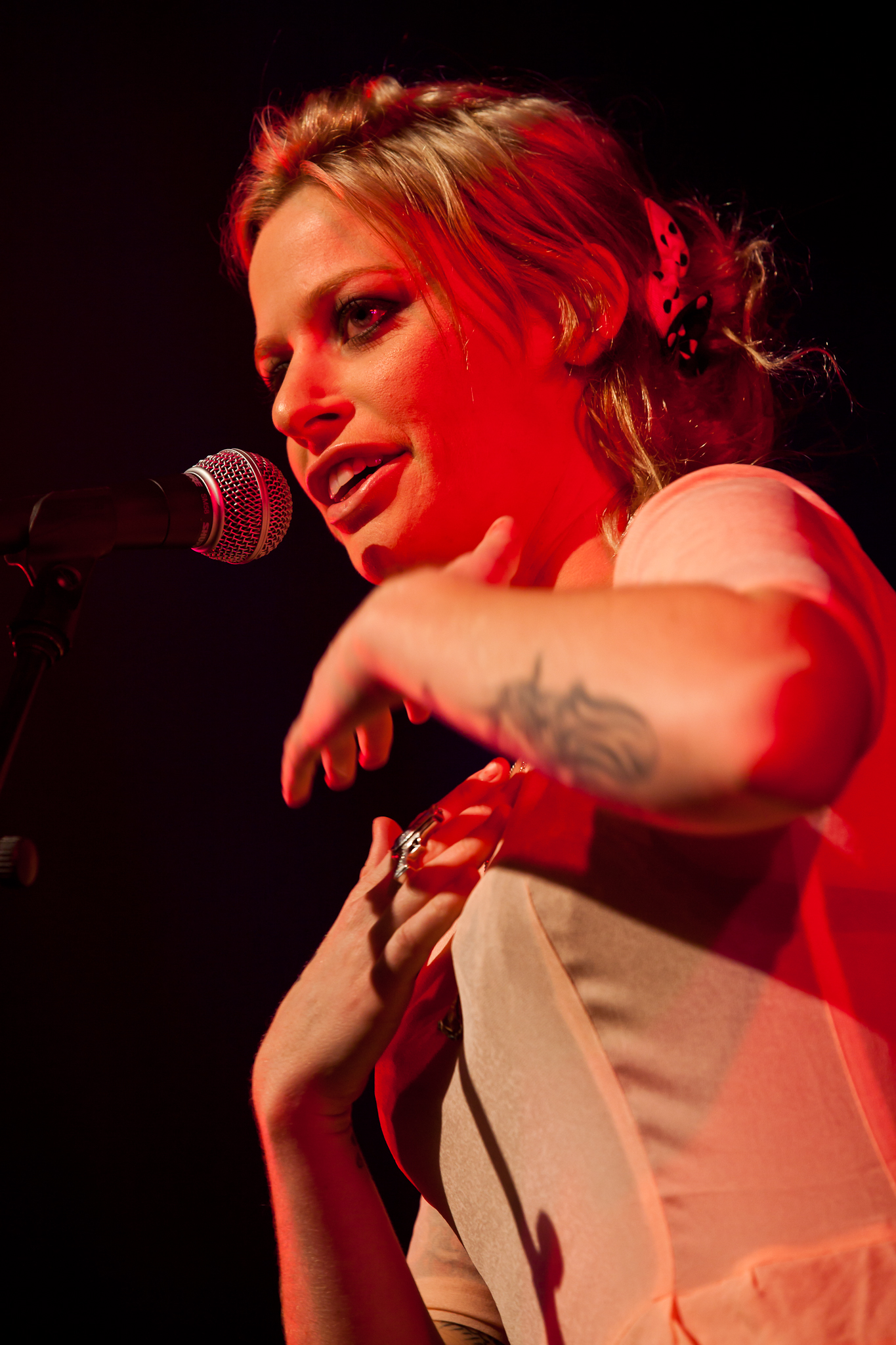 Gin Wigmore on stage